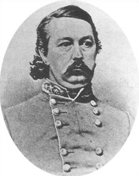 Major General Charles W. Field, CSA from